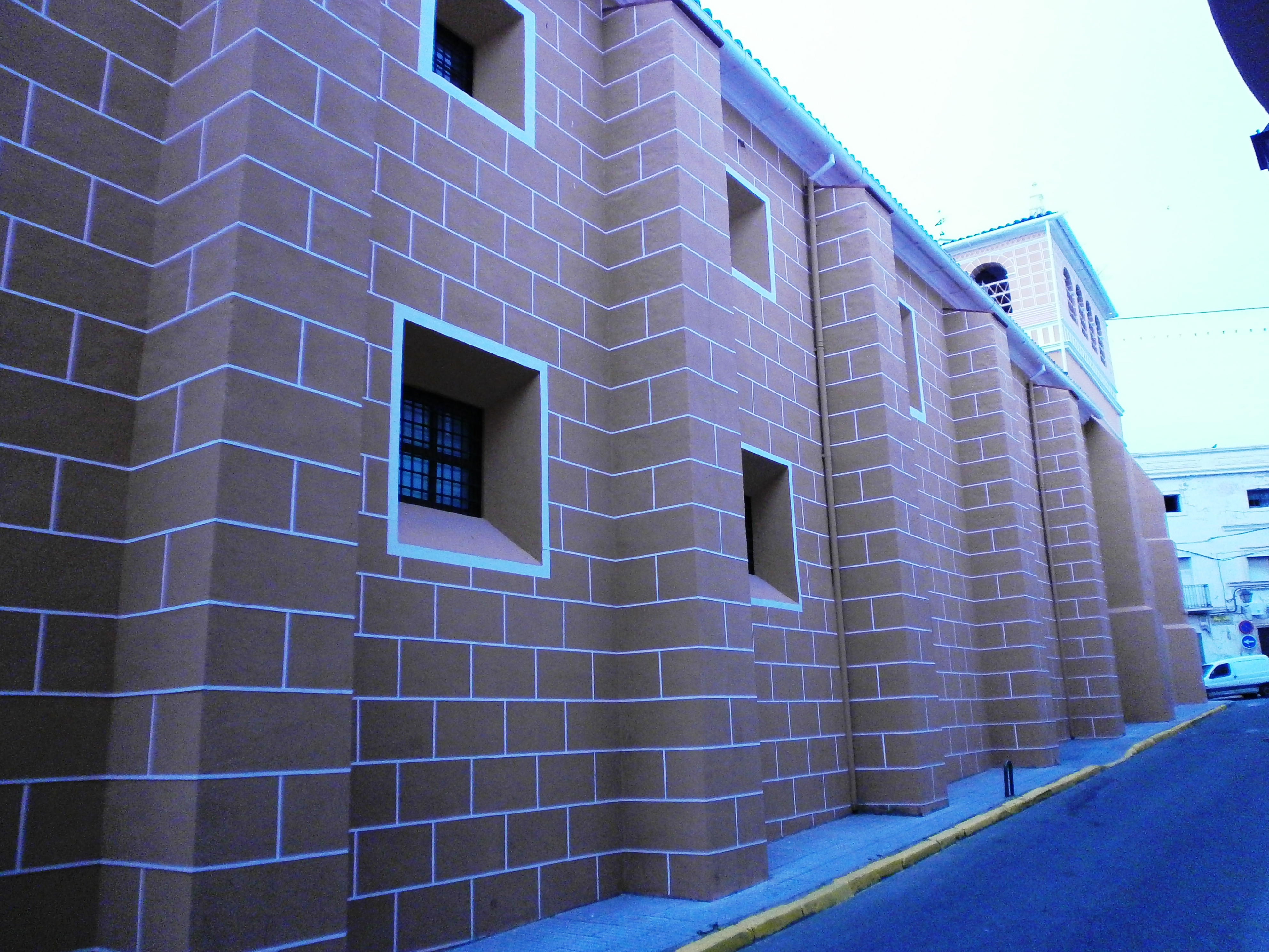 BA-Convento Santa Ana-2